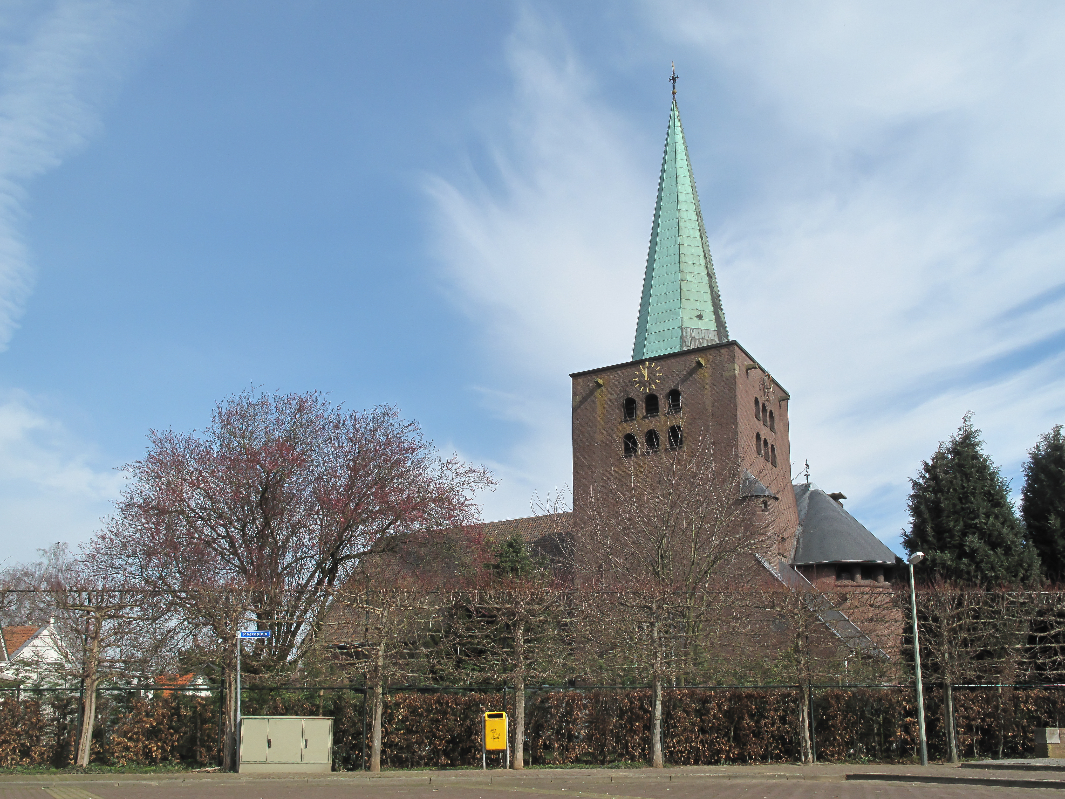 Dieteren, church